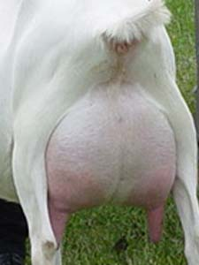 Udder of a goat.